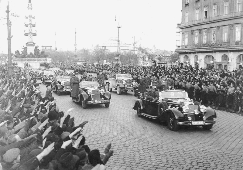 Entrance of the Praterstern (with Tegetthoff Monument) in the Prater Road, position the camera around in Novaragasse.